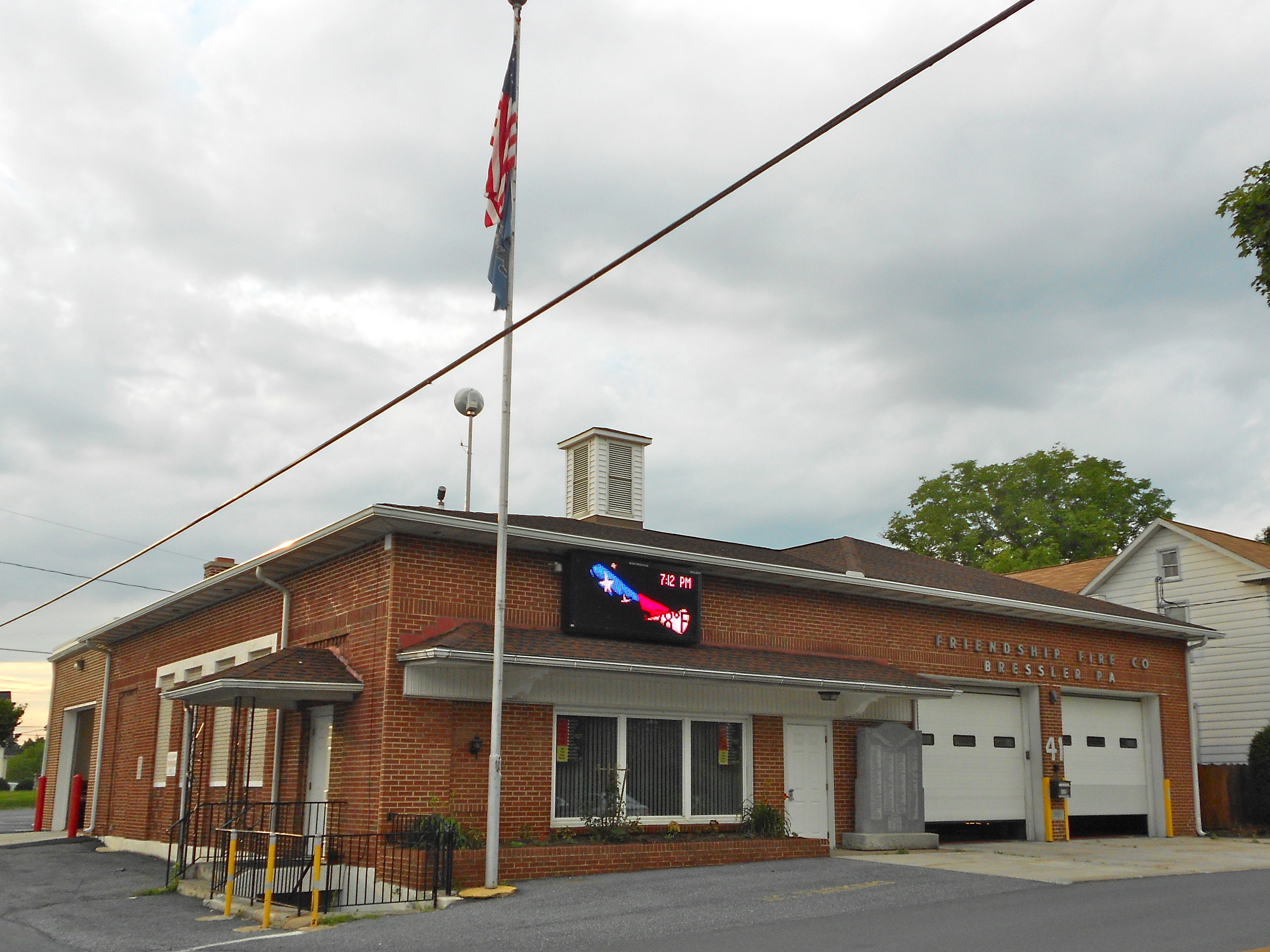 Fire station in Bressler, Dauphin County, Pennsylvania